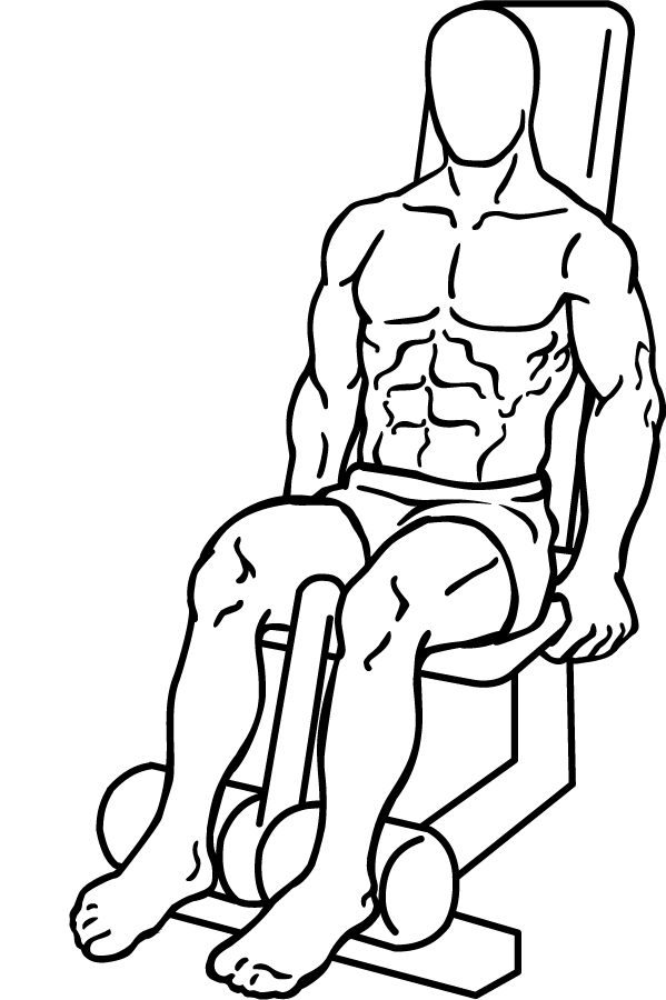 an exercise of thigh